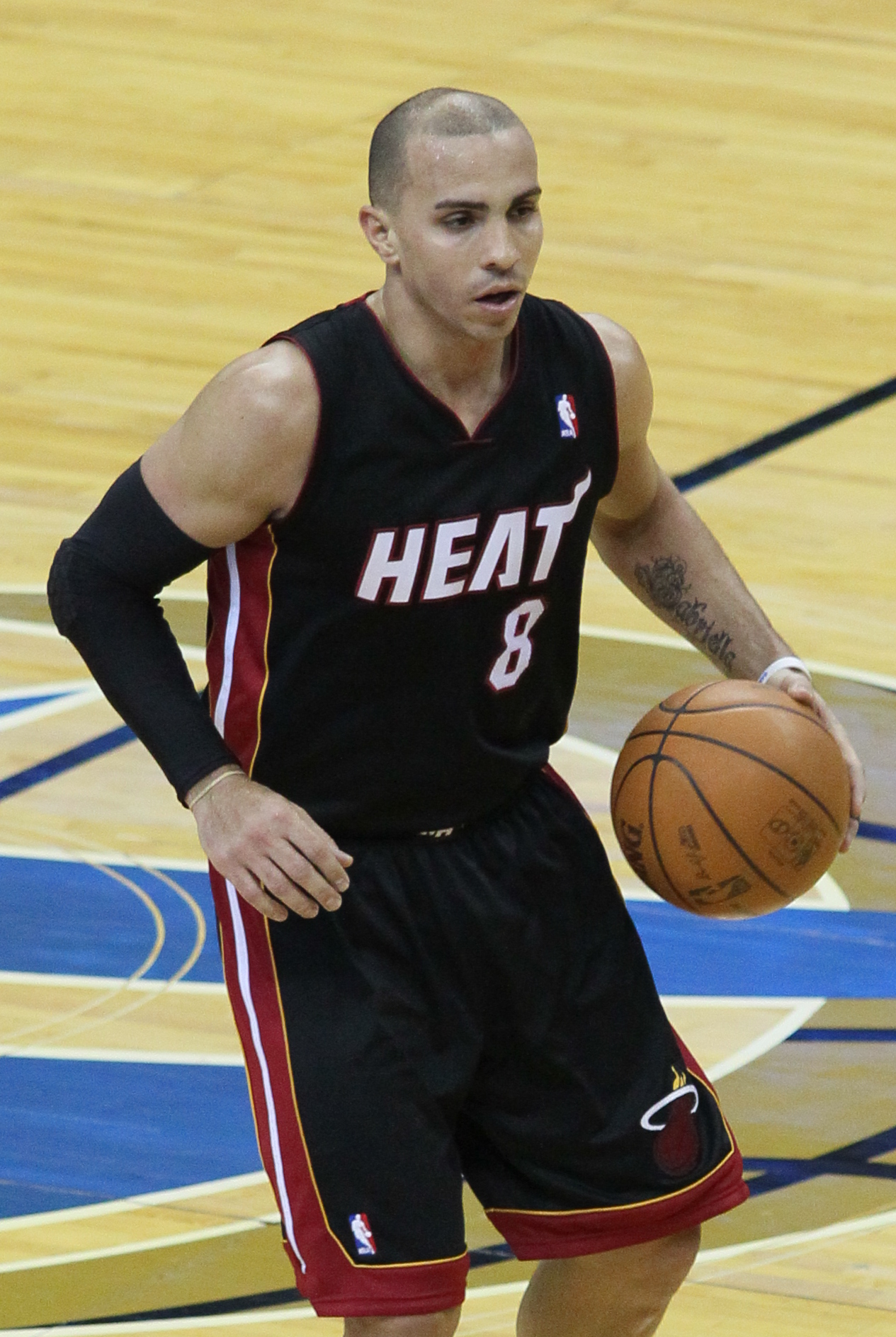 Washington Wizards v/s Miami Heat December 18, 2010